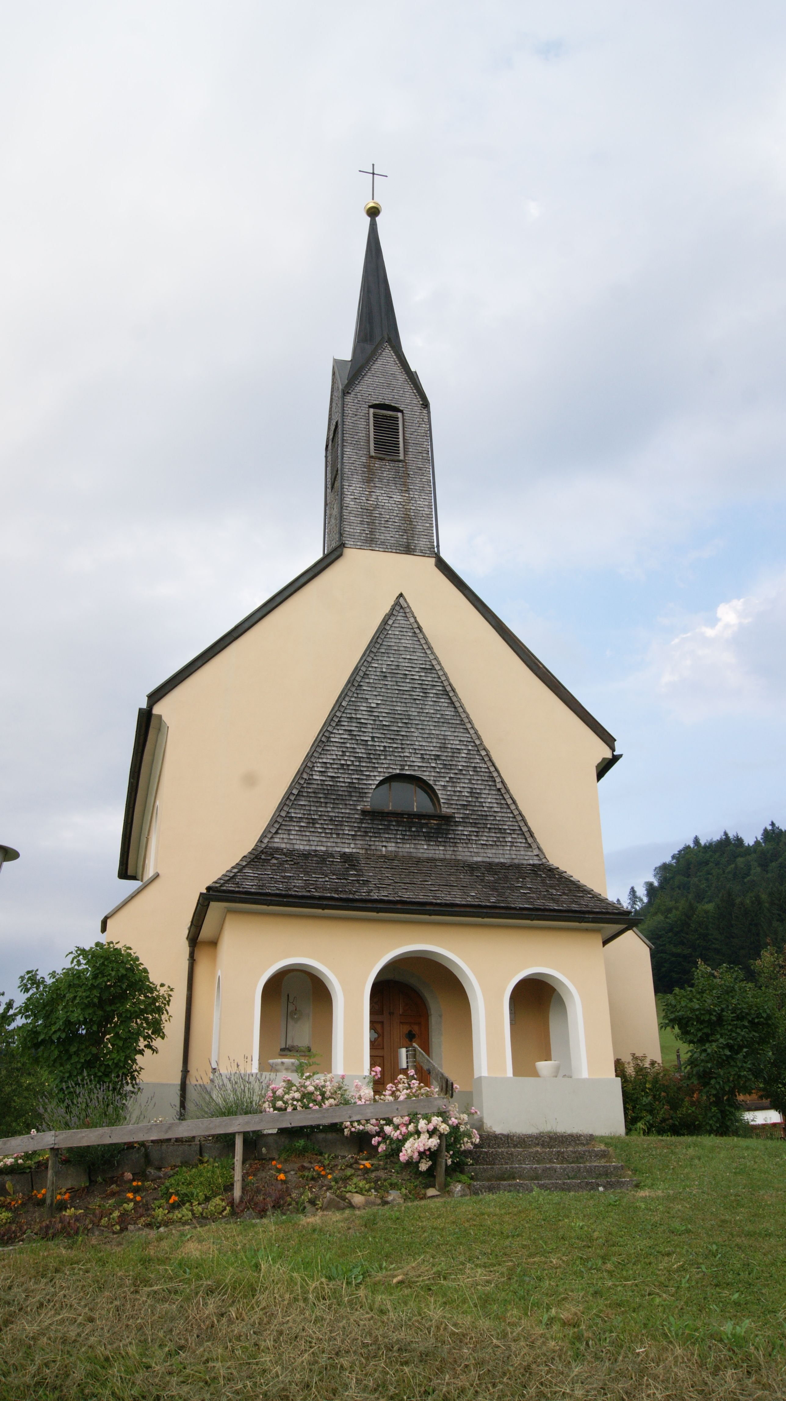 Chapel "Oberfallenberg" in Dornbirn, Vorarlberg, Austria. View of the Chapel from south-west.